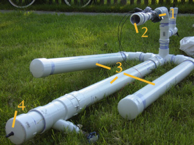 Spud gun Summary The projectile is loaded in the muzzle (not pictured), and the muzzle is attched to the gun (at 2). The air reservoir (3) is filled to 120 PSI using the schrader valve (4). Upon opening the solenoid valve (1), the air from the reservoir is transferred to the projectile, which is fired out of the muzzle.